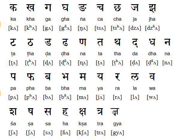 Nepali Language is an Indo-Aryan Language.